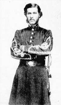 Frank Crawford Armstrong (1835–1909), a United States Army cavalry officer and later a brigadier general in the Confederate States Army during the American Civil War. He is also known for being the only Confederate general to fight on both sides during the Civil War, firstly, on the Union side, then, on Confederate.